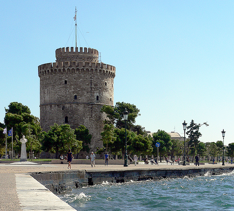 The White Tower of Thessaloniki, with waves crashing on the promenade on a sunny day.